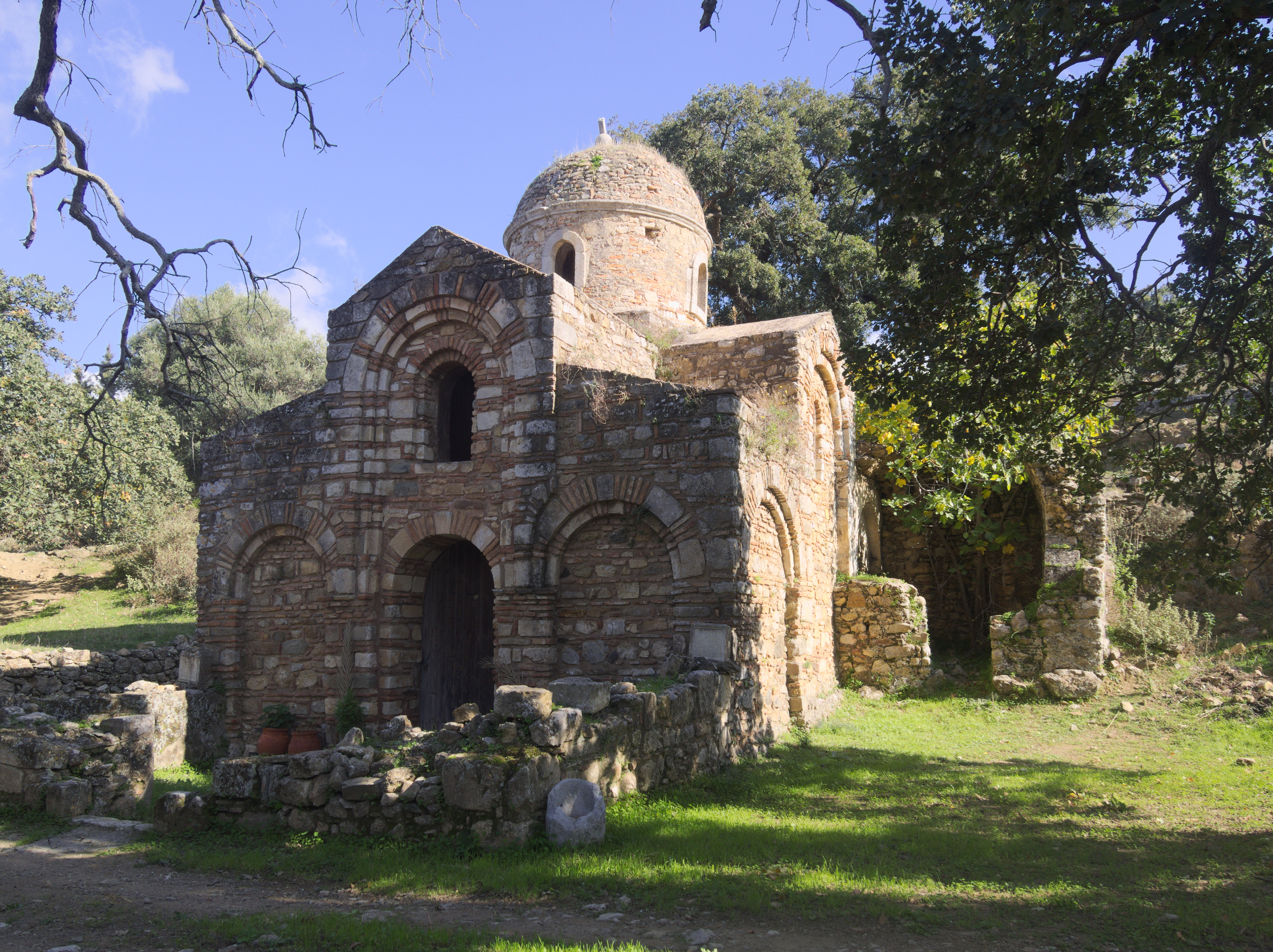 The byzantine church of Agios Ioannis (Saint John) at Roukani, Heraklion municipality.